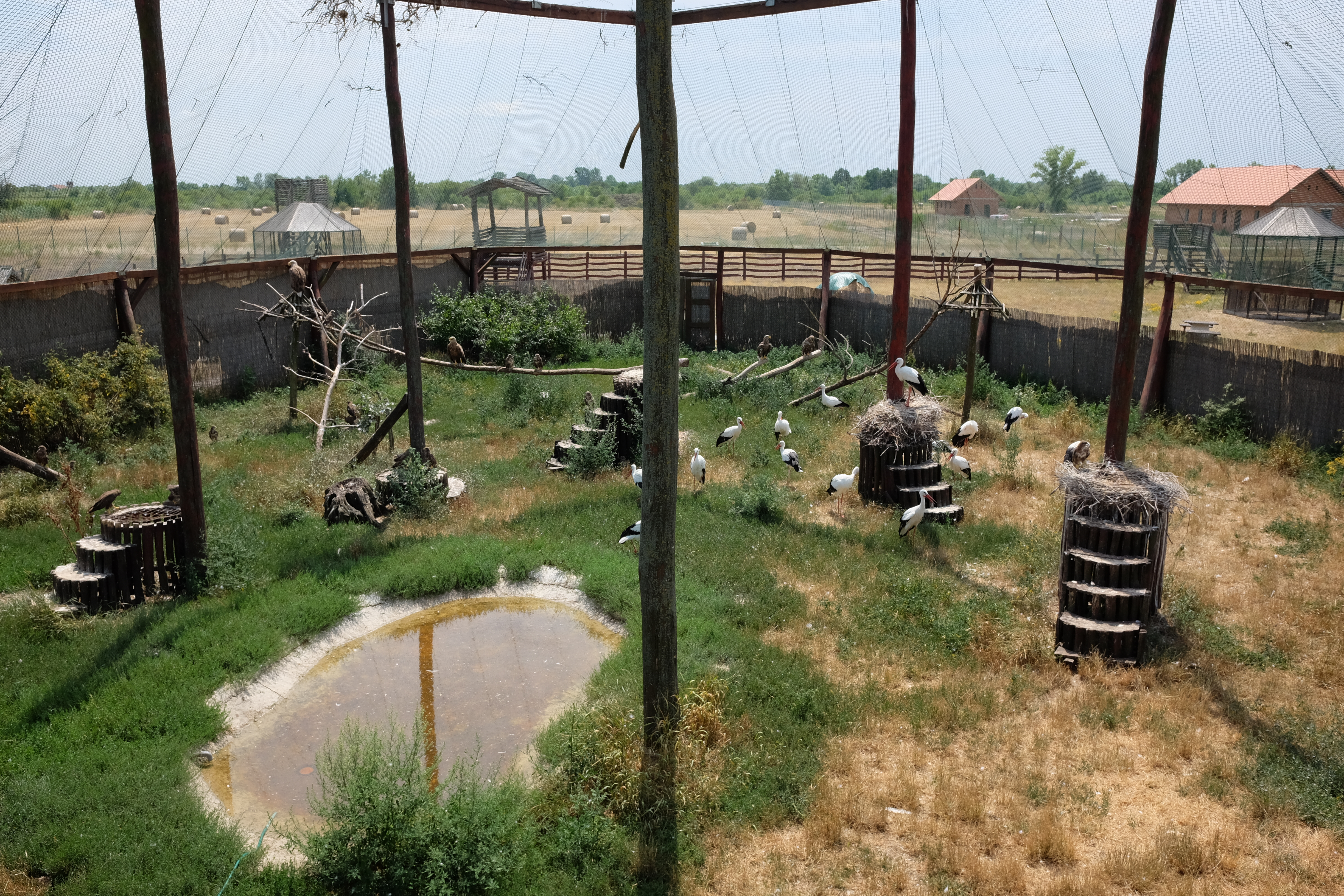 Bird hospital, Hortobágy, Hungary.